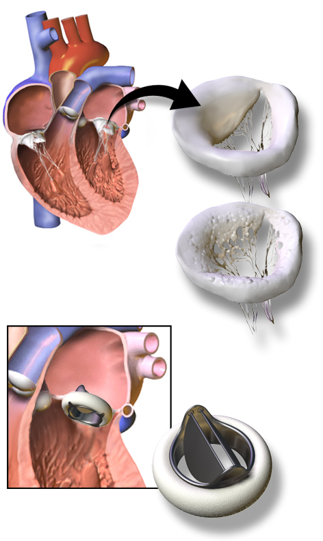 Artificial Heart Valve (St. Francis). This image was donated by Blausen Medical. Please visit our website to see more medical illustrations and animations.